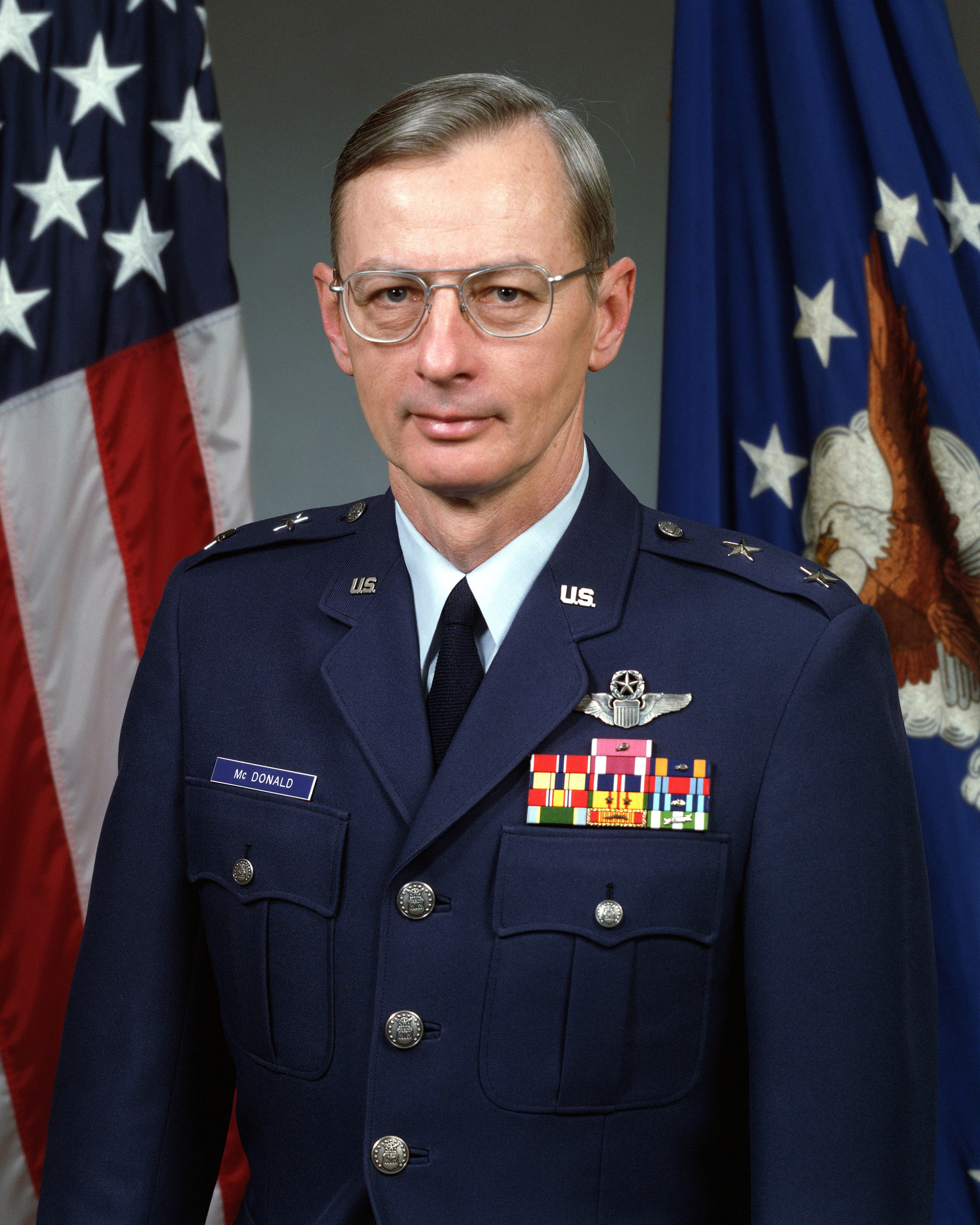 General Charles C. McDonald as a Major General